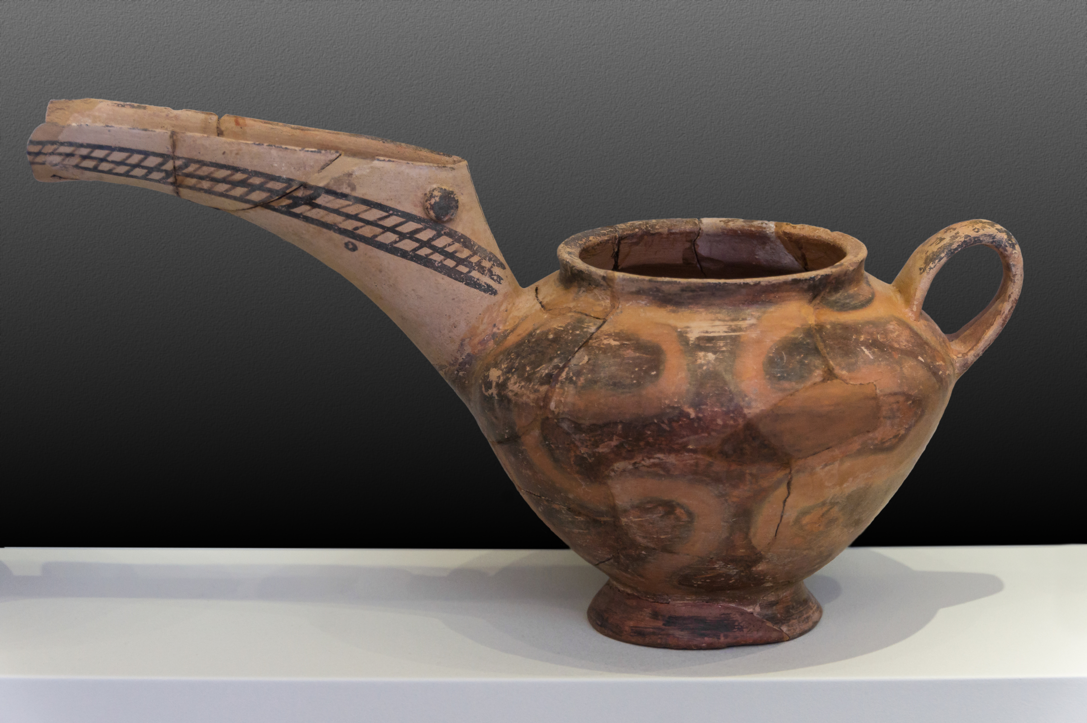 Vasiliki ware, long-neck pot, with characteristic mottled decoration, created by controlled firing in the petter's kiln. Found at Vasiliki in Ierapetra, where there was a flourishing town which was destroyed by fire (uncontrolled...) circa 2200 BCE. The area is considered the main centre of this particular vessel type. Vasiliki, 2400 - 2200 BCE.